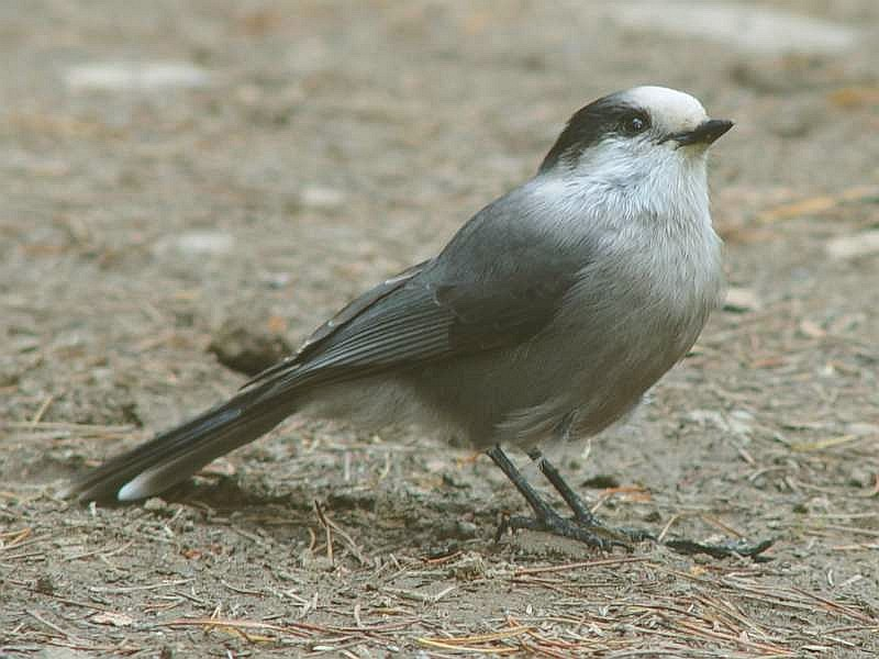 Description Perisoreus canadensis, Family Corvidae Date September 05, 2002 Location Lake Louise - Banff National Park - Alberta, Canada Photographer Franco Folini